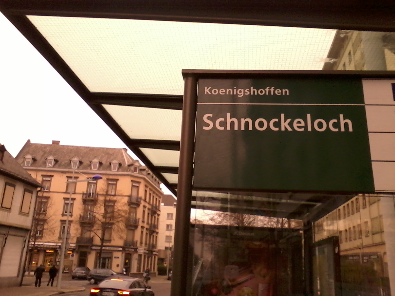 Main street